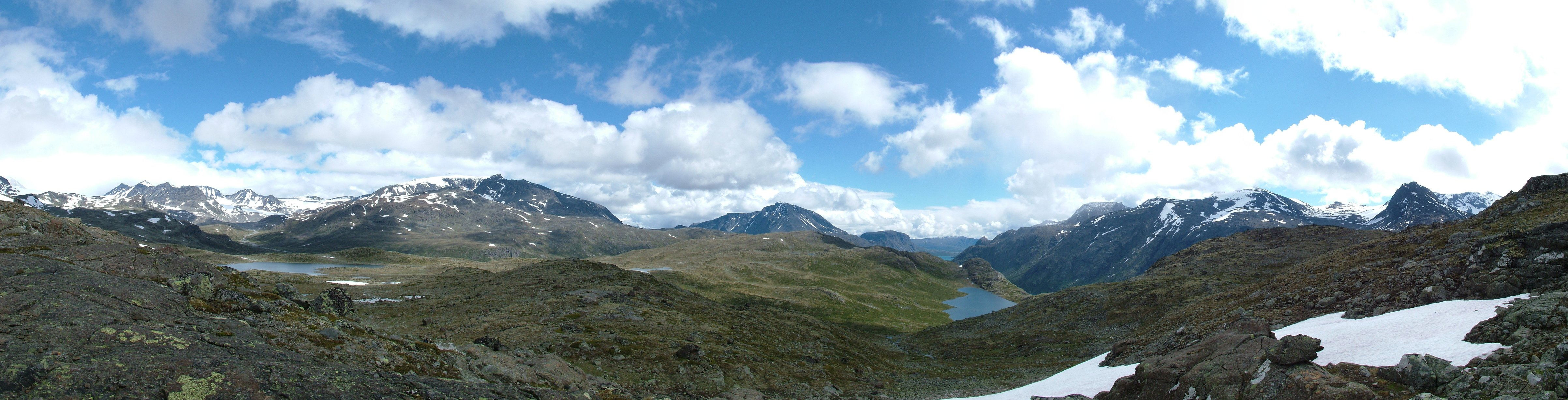 Panoramic view on the mountains near Memurubu, Jotunheimen national Park